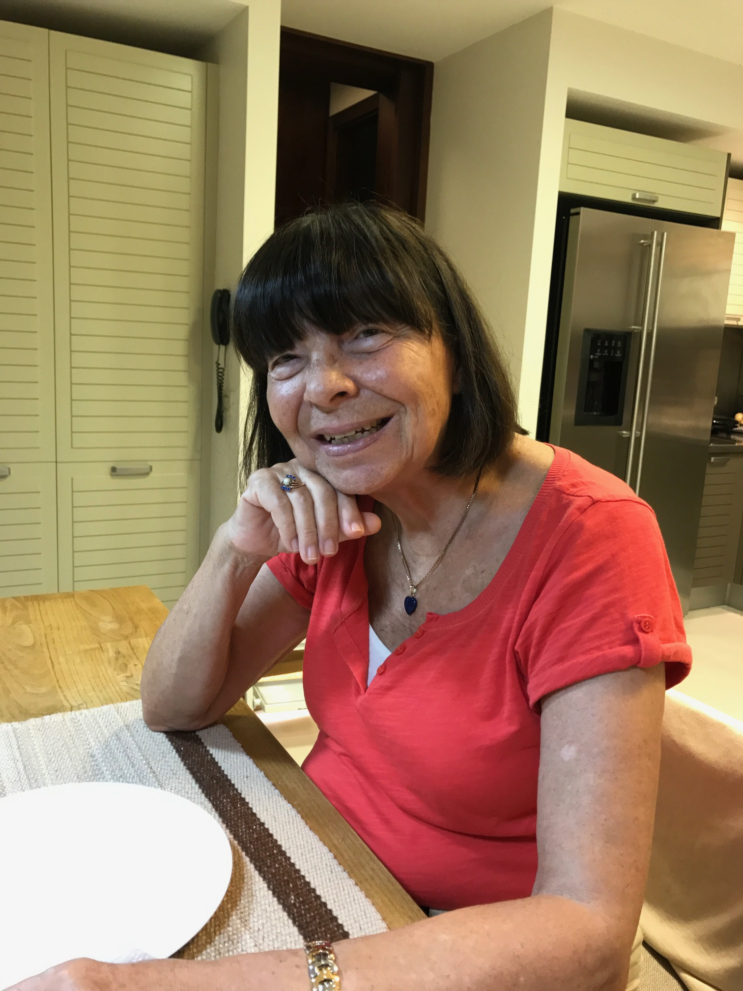 Can Göknil (b. 1945, Ankara) Turkish painter and writer.